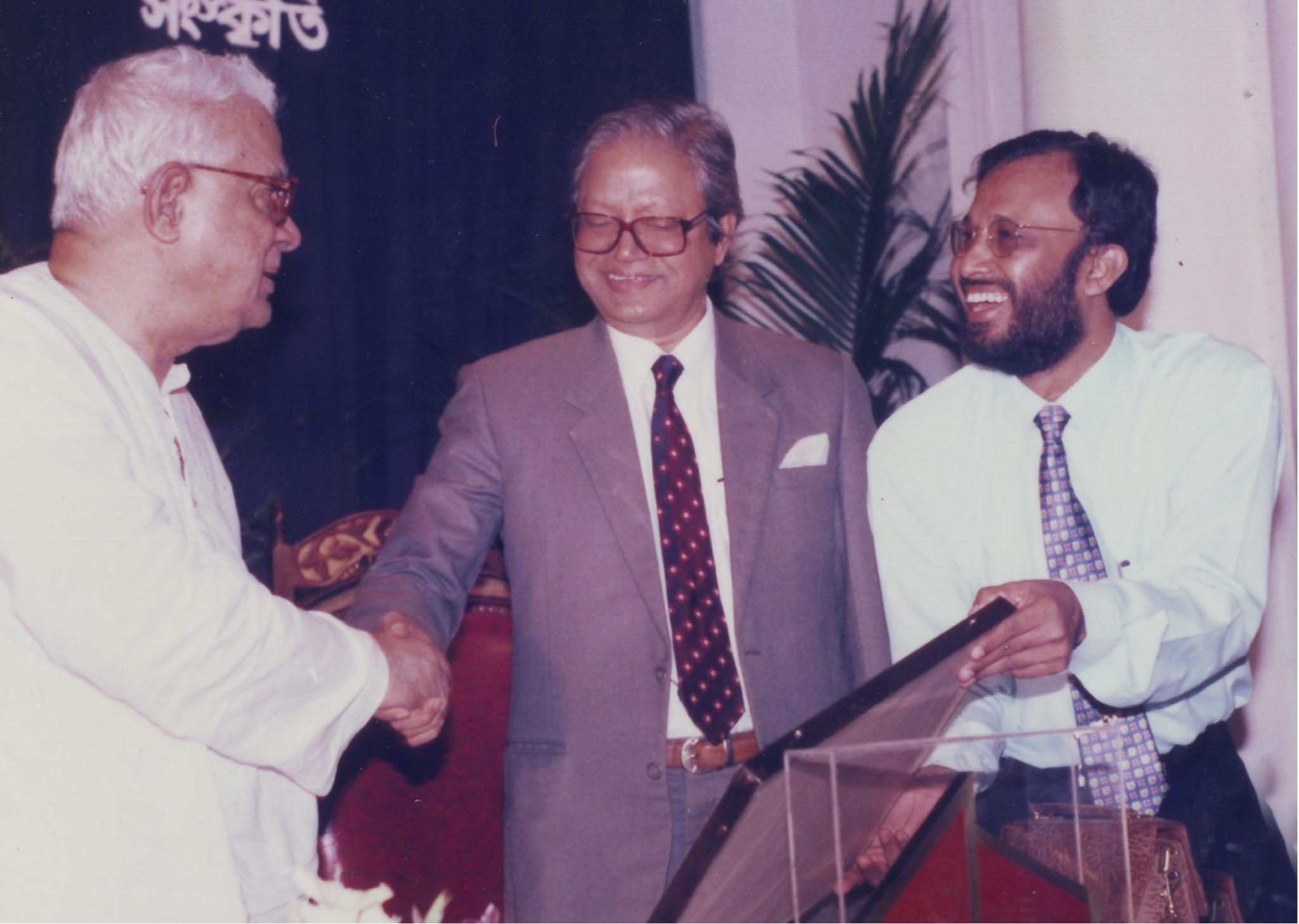 Professor Mohammad Ali along with CSK President Amirul Islam handed over the Farrukh Memorial Award (1999) to Abu Rushd